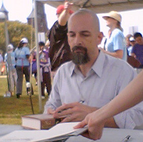 Neal Stephenson doing a book signing at the National Book Festival